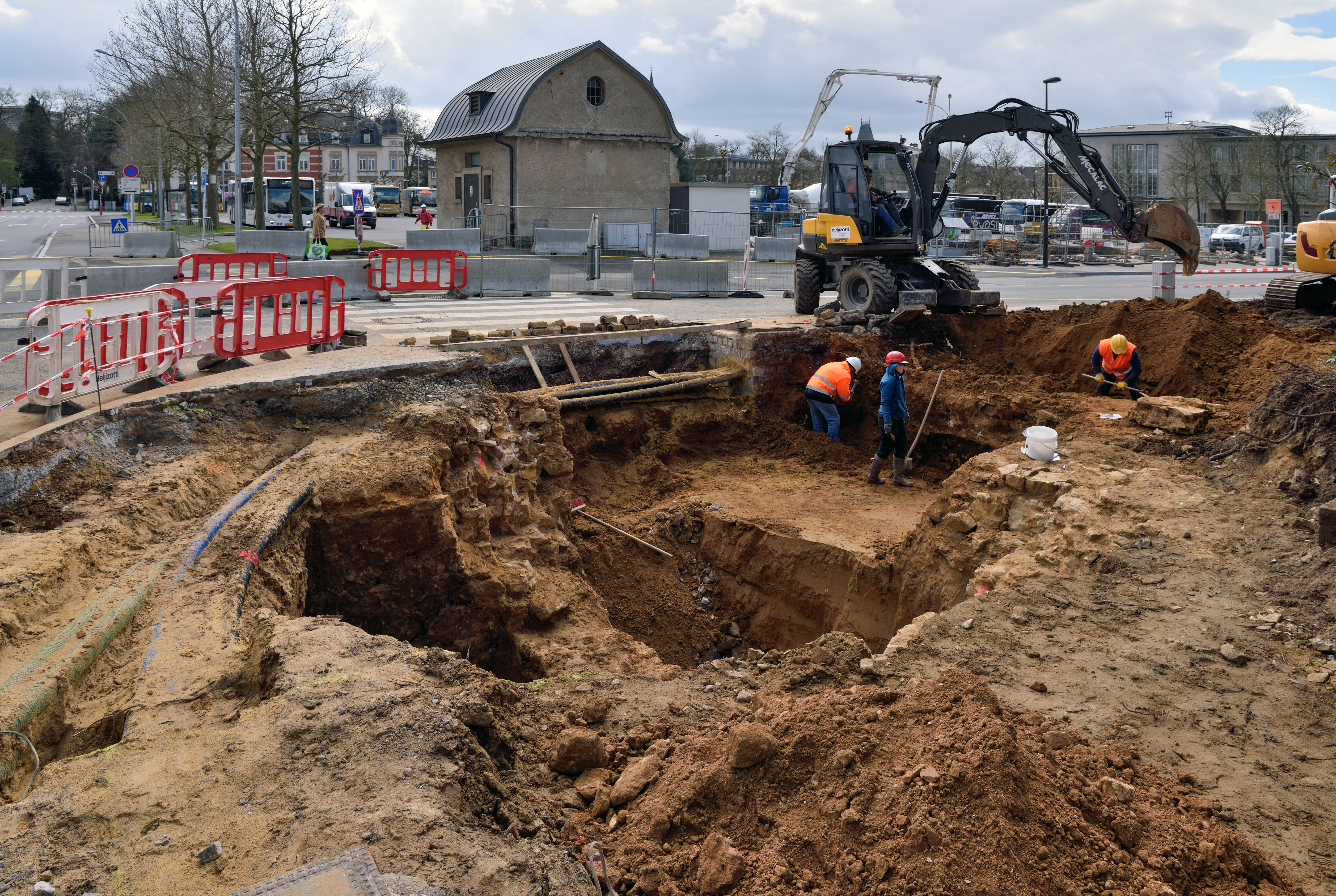 Luxembourg City, Limpertsberg: archaeological excavations in April 2016. The foundations are from a chapel erected in the years 1625-1627. It was demolished in 1796 by the French Revolutionary troops.